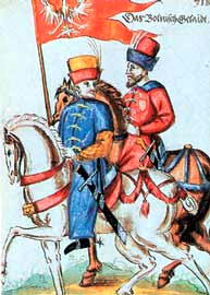 Polish cavalry of XVI century